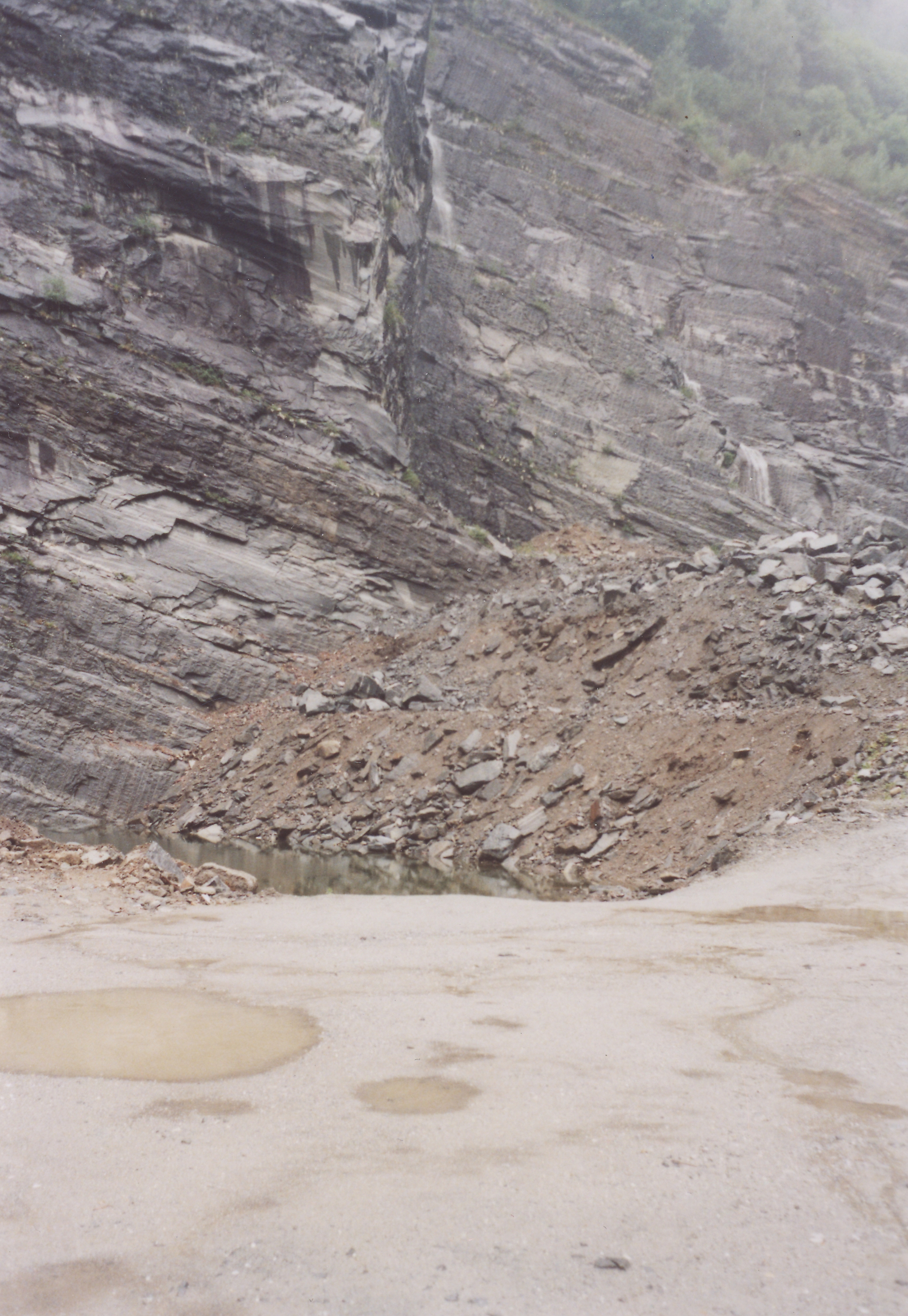 Gneiss quarry (Valle Maggia, Canton Ticino, Switzerland)